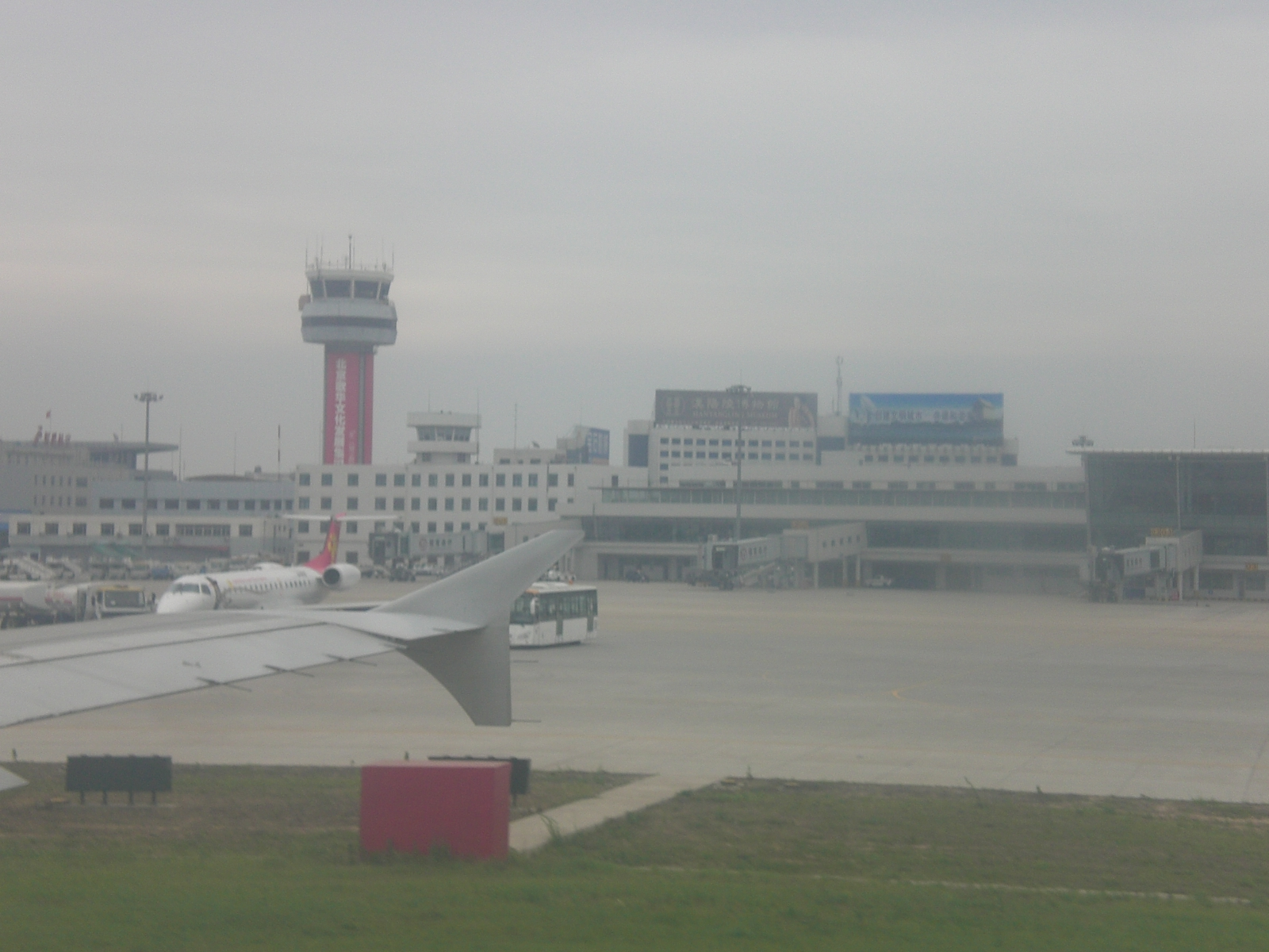 中國東方航空zh:飛機艙外望風景西安咸陽國際機場控制塔